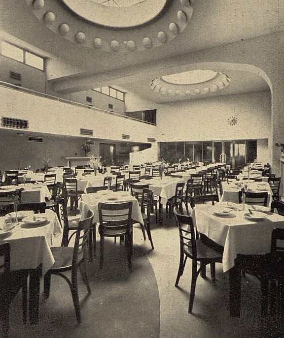 Restaurant "U Rozvařilů", Prague, 1939